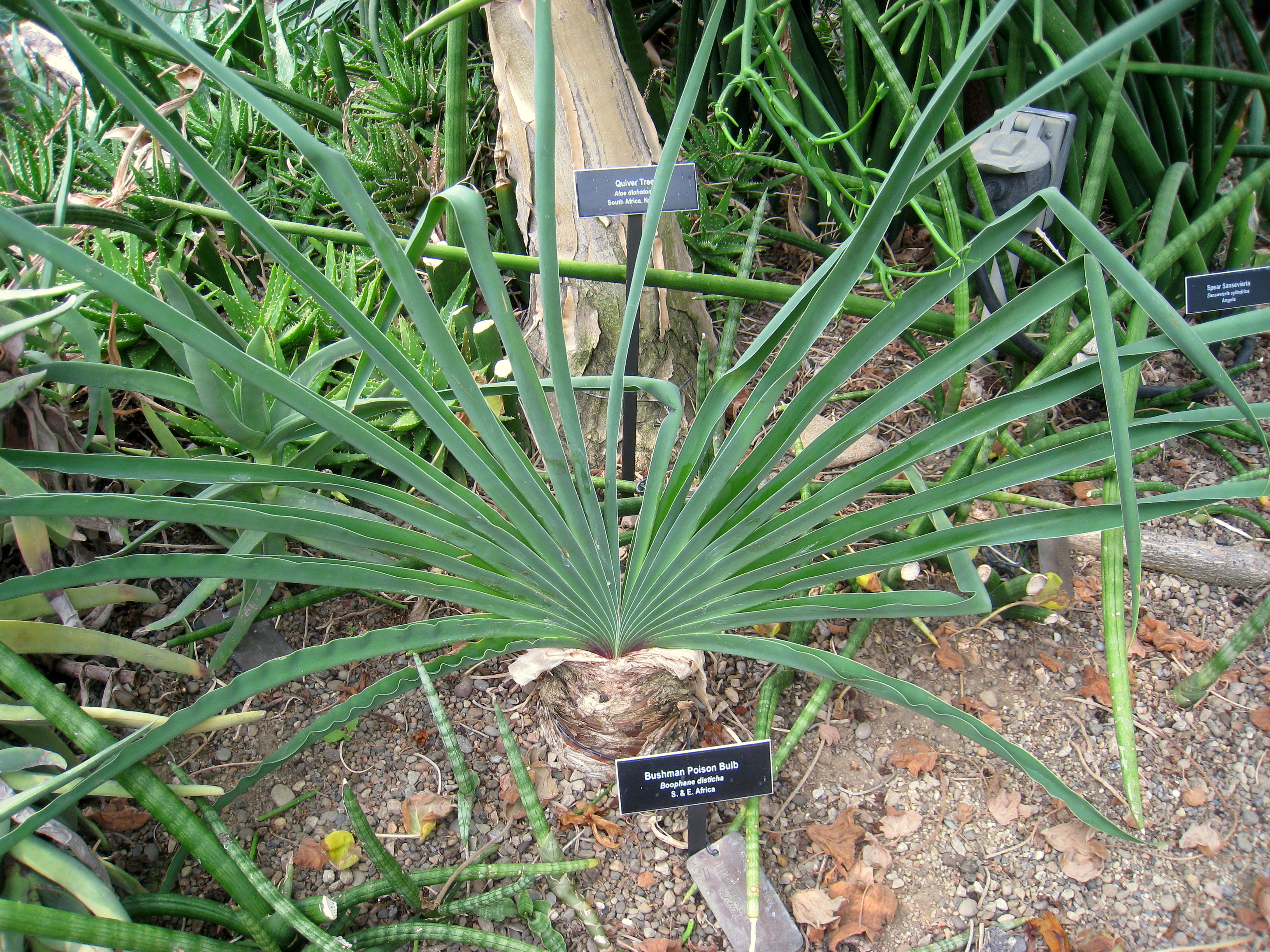 Boophane disticha in Phipps Conservatory & Botanical Gardens, Pittsburgh, Pennsylvania, USA.